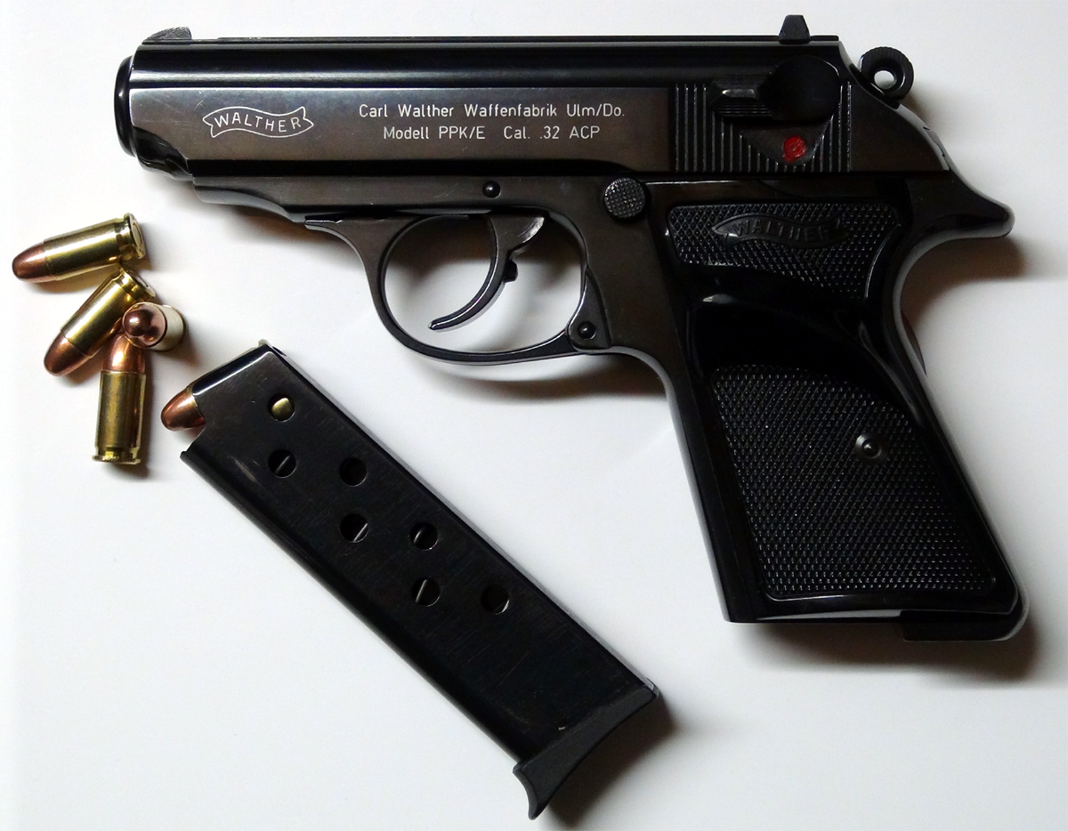 Walther PPK-E